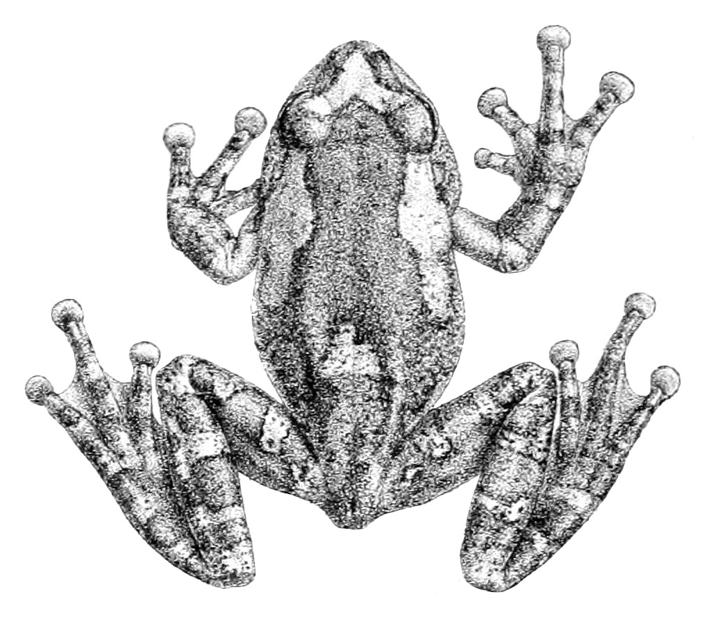 Nasutixalus jerdonii = Philautus jerdonii